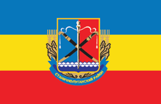 Flag of Stanychno-Luhanskiy rayon